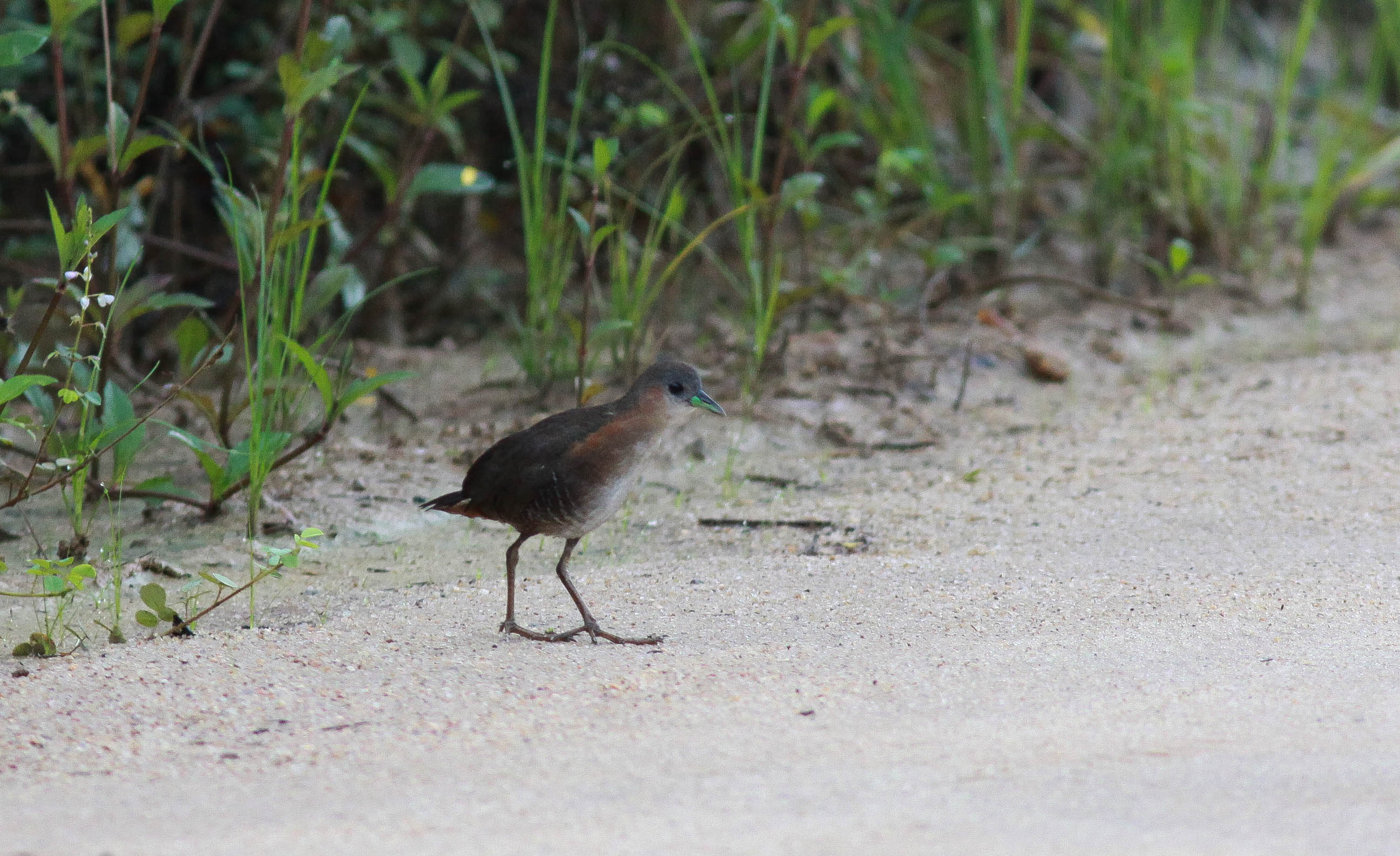 Rufous-sided Crake, Laterallus melanophaius